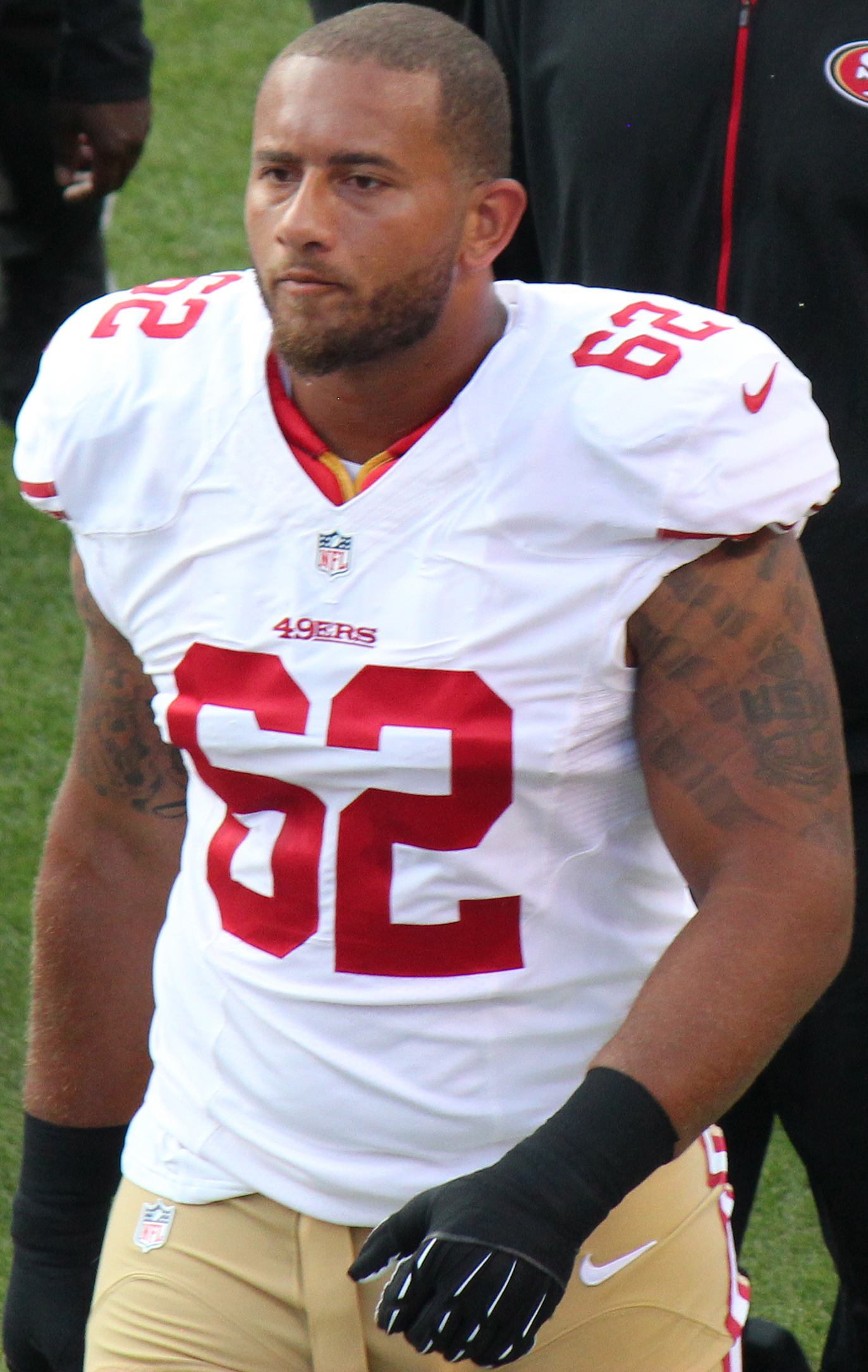 Ian Silberman, a player on the National Football League.